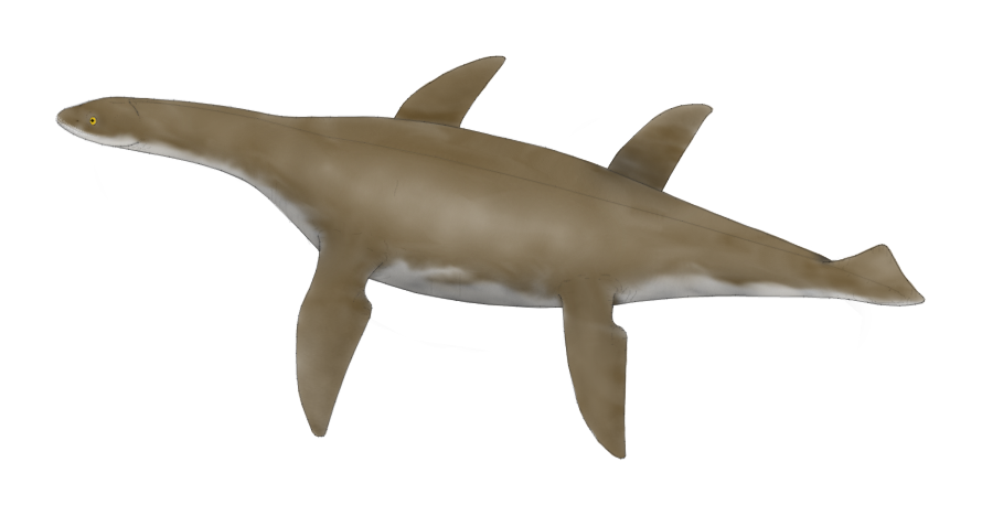 Life restoration of the bizarre North American Upper Jurassic cryptoclidid plesiosaur Tatenectes. Note that the caudal fin may have been horizontal instead of vertical. References O'Keefe, F. Robin; Street, Hallie P.; Wilhelm, Benjamin C.; Richards, Courtney D.; Zhu, Helen (2011). "A new skeleton of the cryptoclidid plesiosaur Tatenectes laramiensis reveals a novel body shape among plesiosaurs". Journal of Vertebrate Paleontology 31 (2): 330-339.